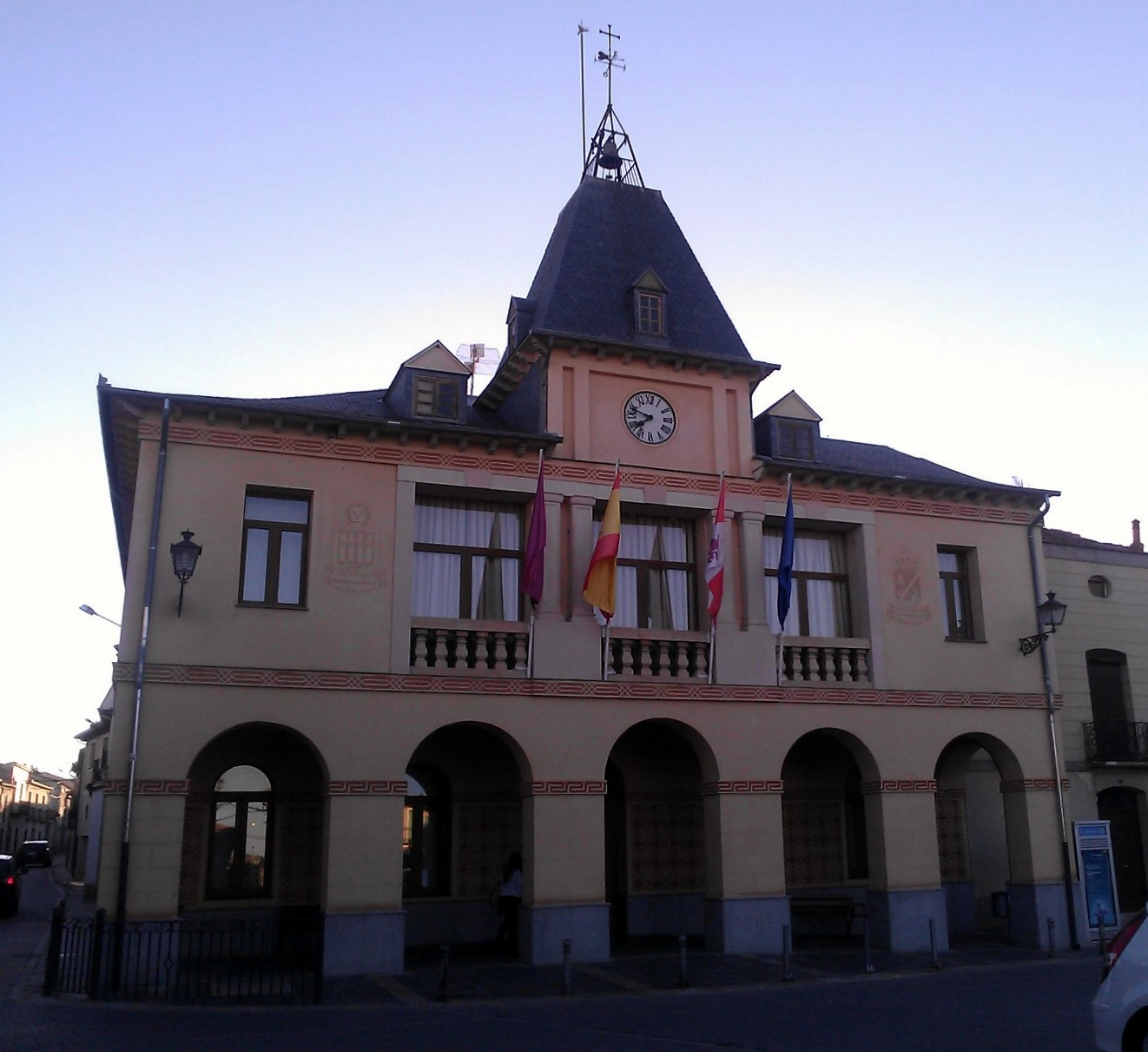 City hall of Bernardos, Segovia, Spain.